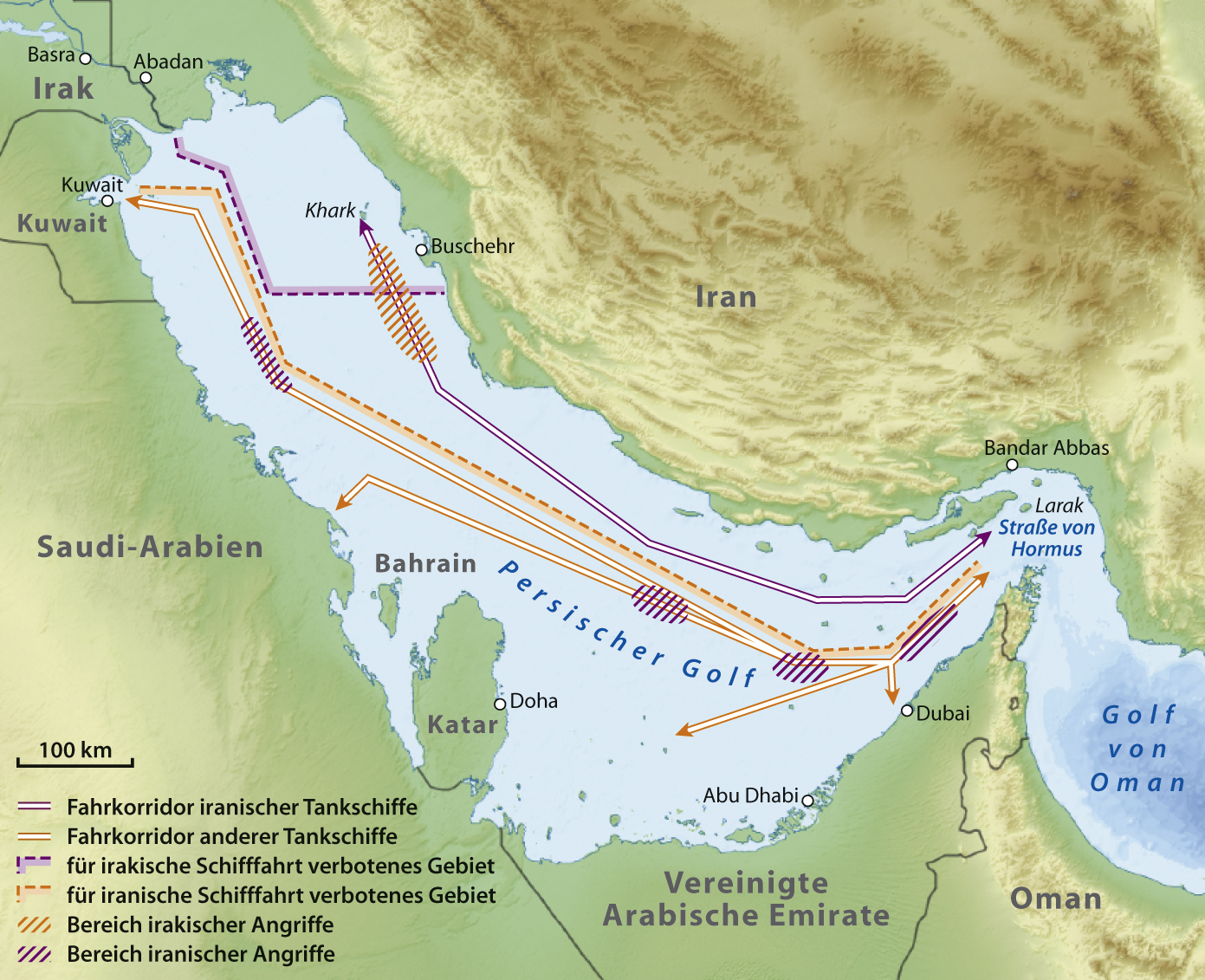 Map of the Tanker War